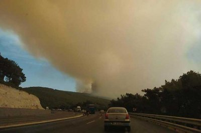 İzmir - Manisa Road (Mount Sipylus - en: Mount Yamanlar Sabuncubeli Pass) Forest Fire on 15 August 2007 - Turkey